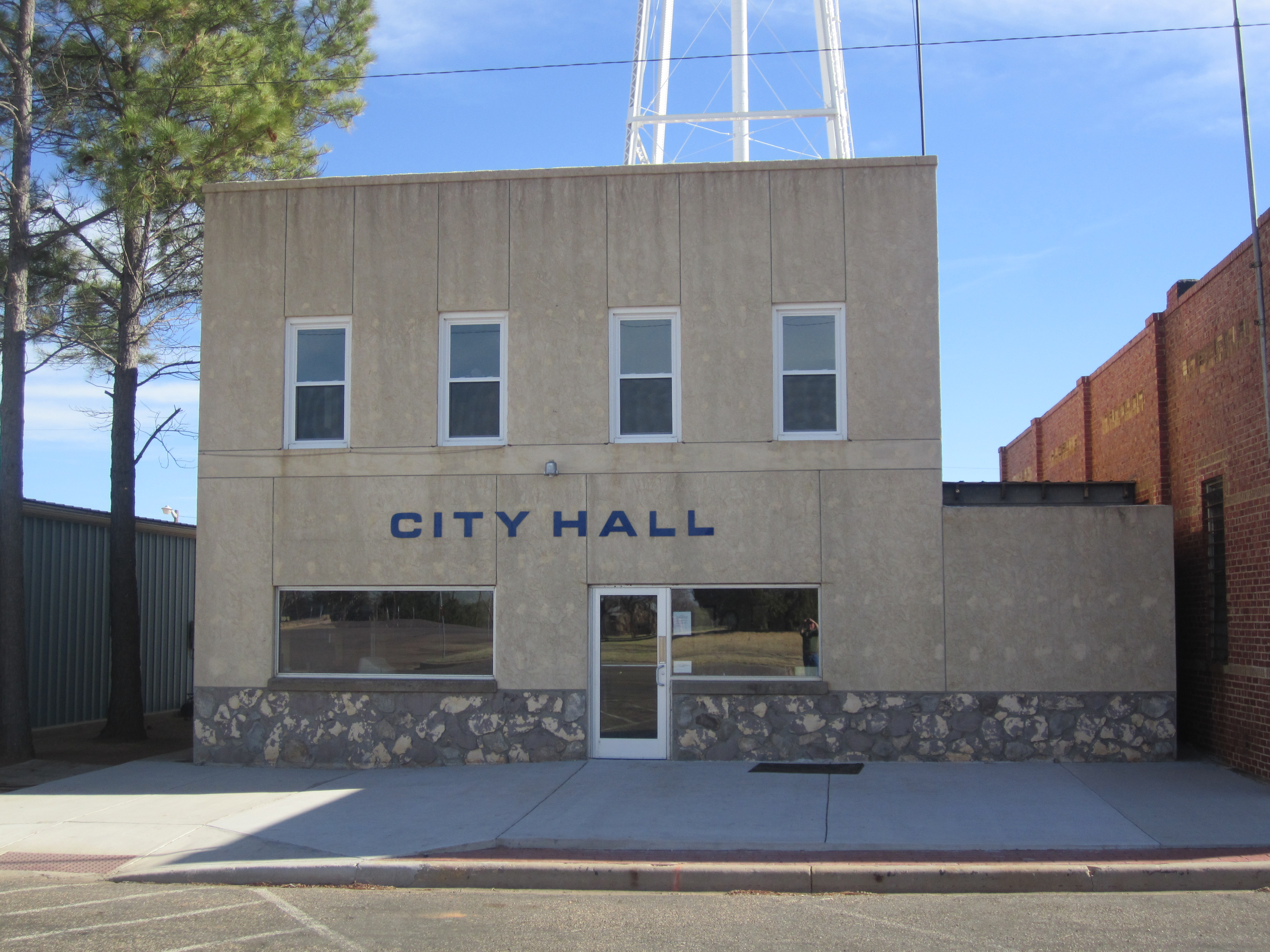 I took photo with Canon camera in Matador, TX.